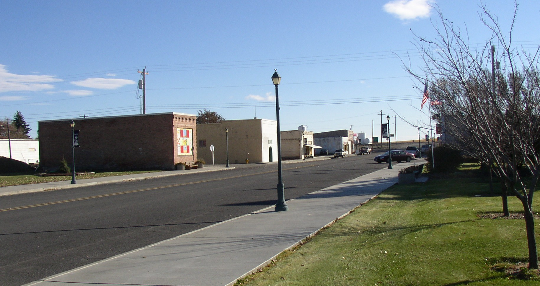 Photo of Mansfield, Washington. Taken November 2006 by uploader. All rights released. Williamborg 07:09, 12 November 2006 (UTC)